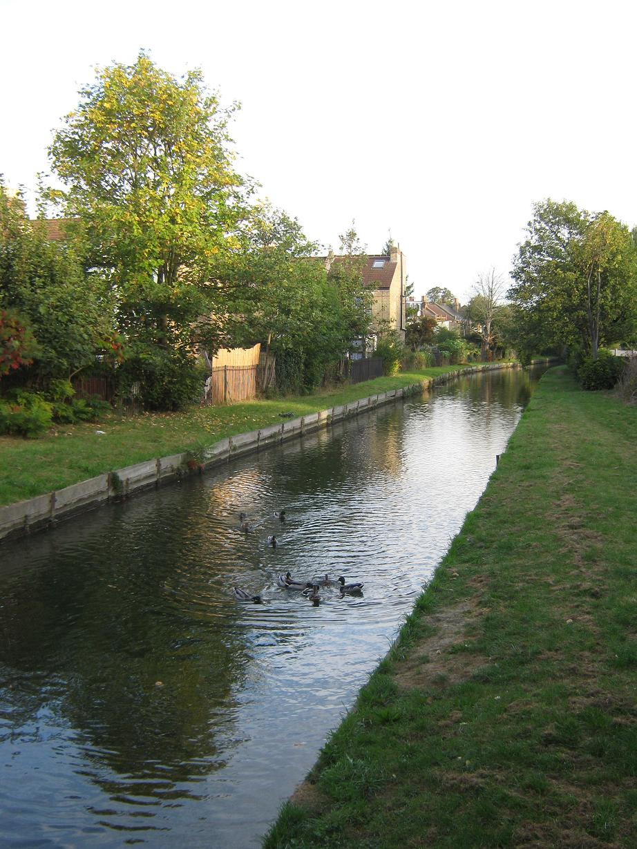 Section of the New River passing through Bowes Park, London (taken 29 September, 2009)